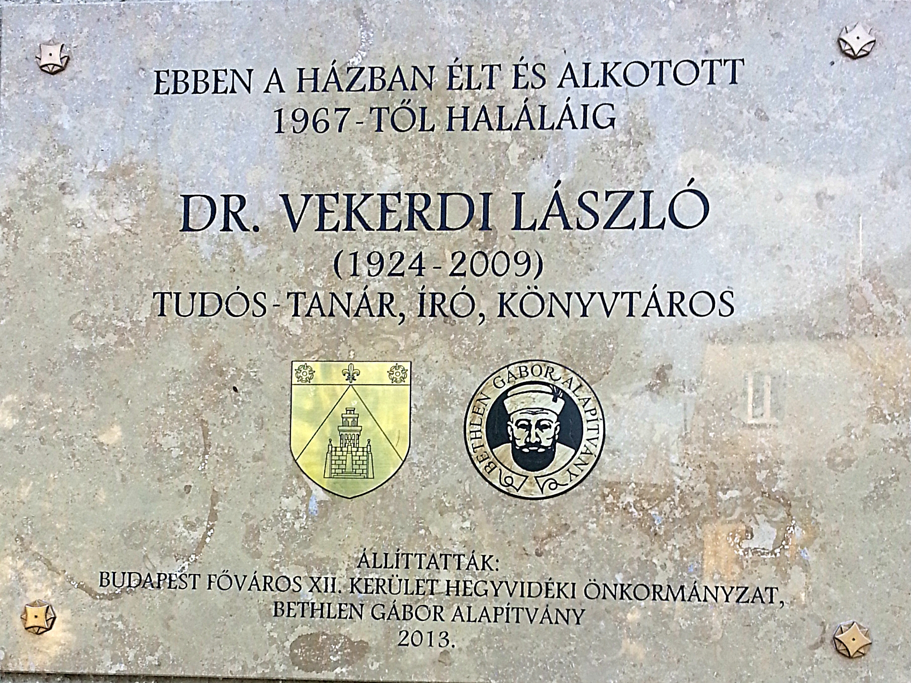 László Vekerdi commemorative plaque in Budapest District XII, Határőr Street No 27.